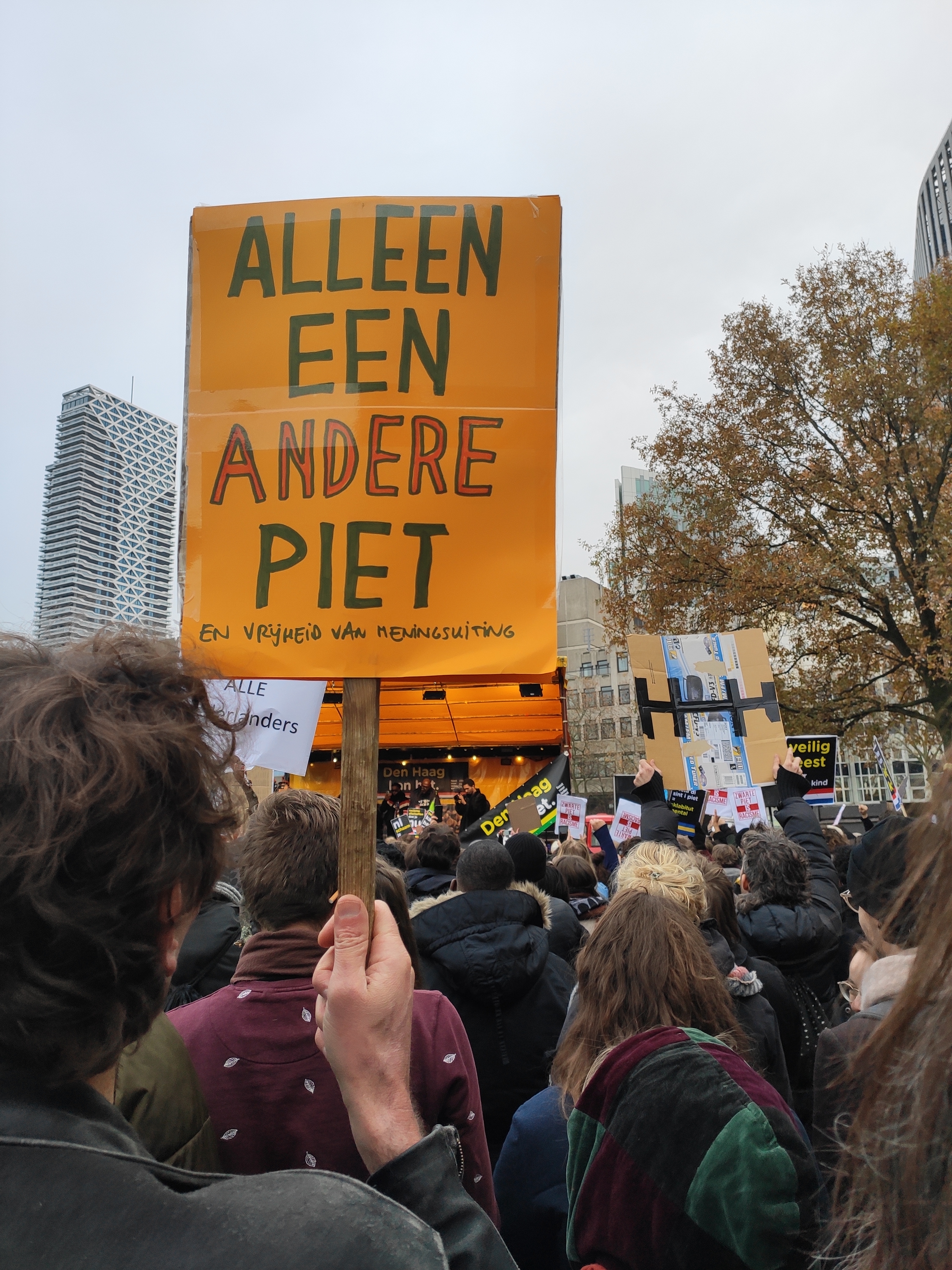 Sign reading "just a different Piet - and freedom of expression"